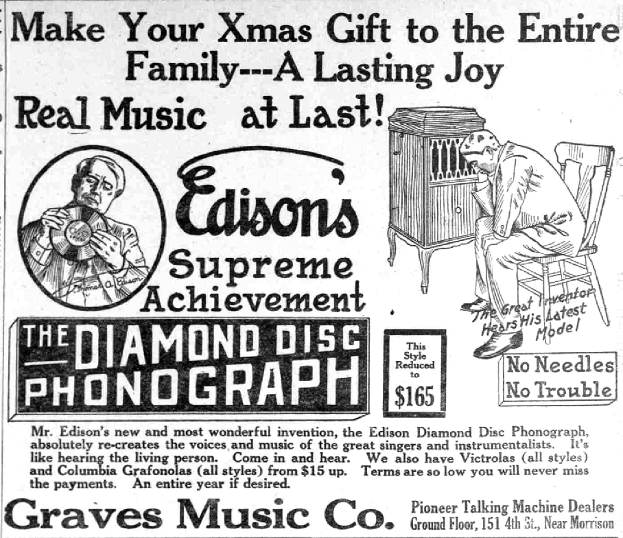 1915 pre-Christmas ad for the Edison Diamond Disc player.